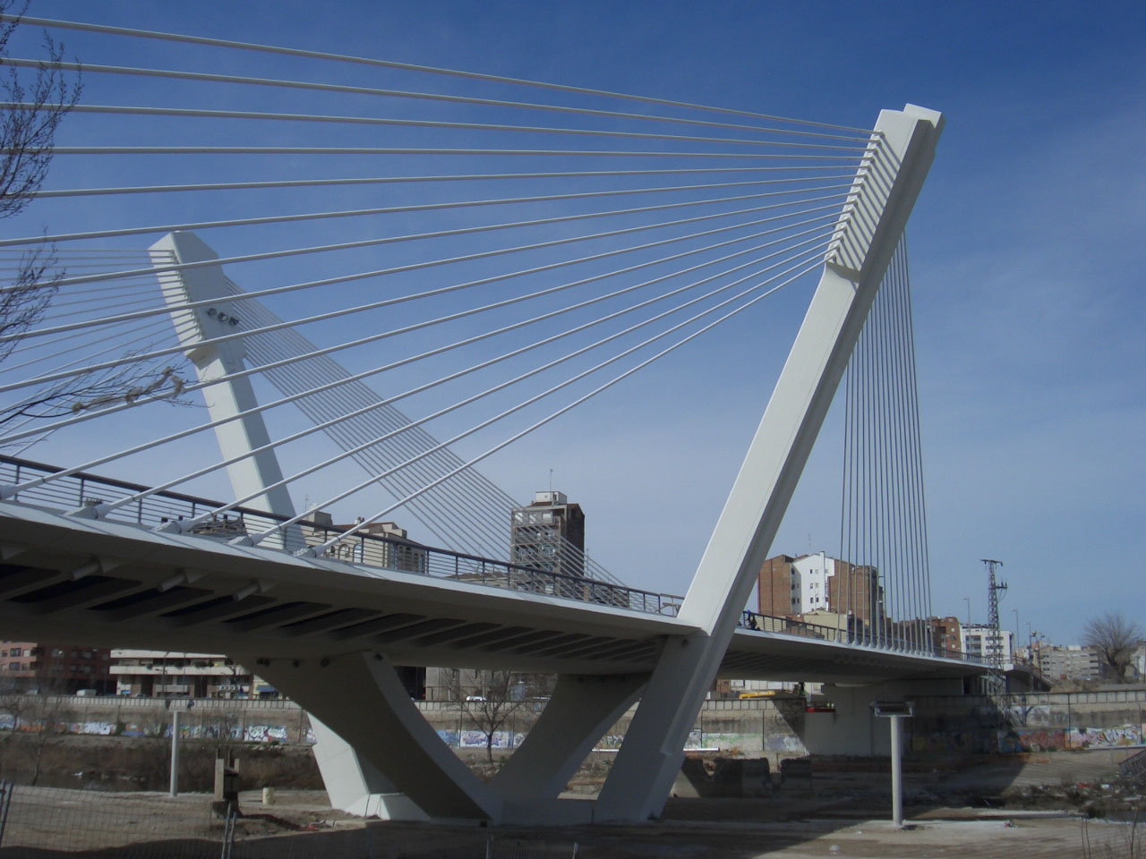 Princep de Viana Bridge (2007-2010) in Lleida, by the Navarran engineer and bridge designer, Javier Manterola Armisén (Pamplona, 1936)